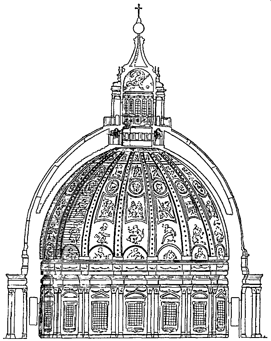 Detail (Figure 25) from page 101 of Palustre's L’Architecture de la Renaissance, 1892